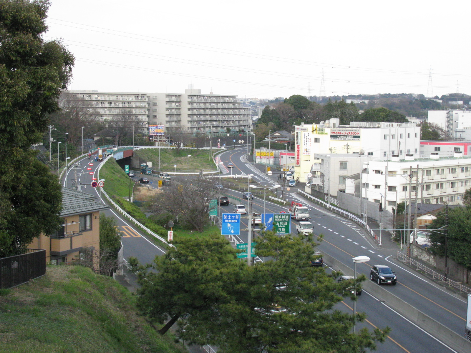 Yokohama Shindo is bypassed of National highways Route 1. Is a toll road end.